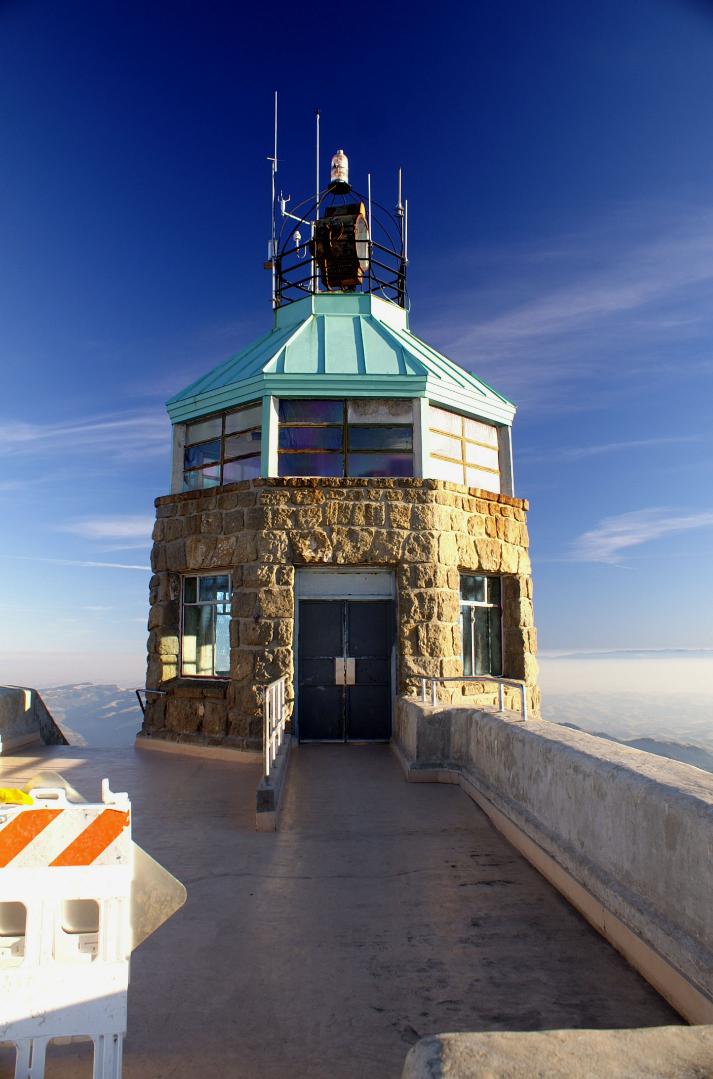 Mount Diablo. Summit Building. Contra Costa County, California.